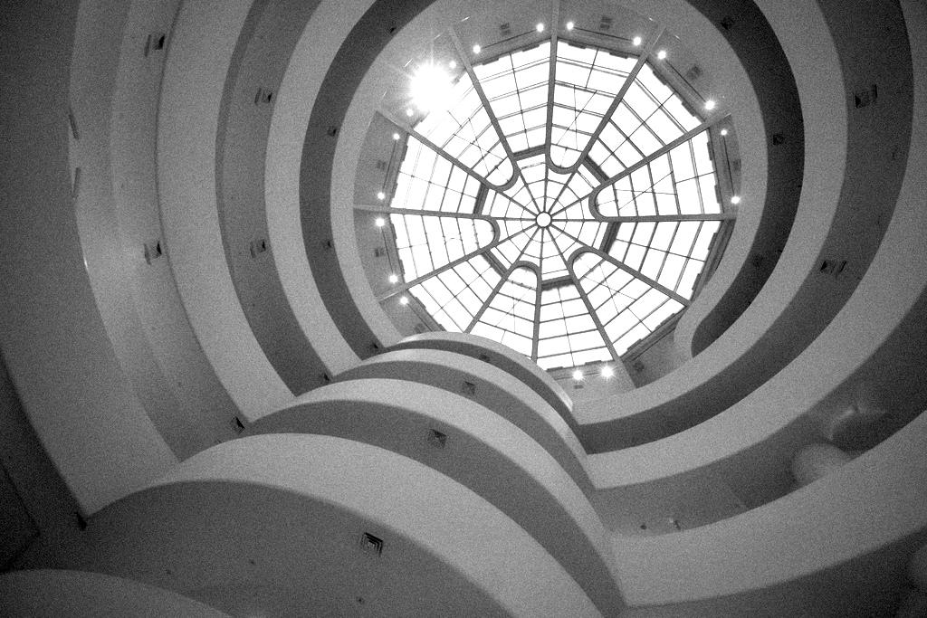 Guggenheim New York